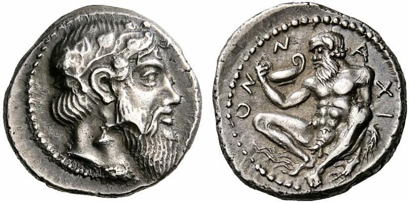 Coin of Naxos. Circa 461-430 BC. Drachm (Silver, 4.26 g 5), circa 450. Head of Dionysos to right, wearing ivy wreath and with his hair in a bun at the back. Rev. N A CI ON Nude and bearded Silenos squatting, facing, turned very slightly to the left, turning his head to the left towards the two-handled, stemless drinking cup he holds in his right hand, and supporting himself with his left hand propped on the ground; his animal tail curls out behind him and around to the left. Cahn 56.12 (this coin). Rizzo pl. XXVIII, 14. Rare. Nicely toned and with a particularly noble head of a fully early classical Dionysos. With the beginning of the usual die break on the obverse, otherwise, extremely fine. From the Spina collection, ex Leu 81, 16 May 2001, 90 and from the collections of N. B. Hunt, II, Sotheby’s 21 June 1990, 240, S. Weintraub, R. Peyrefitte, Vinchon 29 April 1974, 23, and O. Bloch, Ars Classica XIII, 27 June 1928, 239..